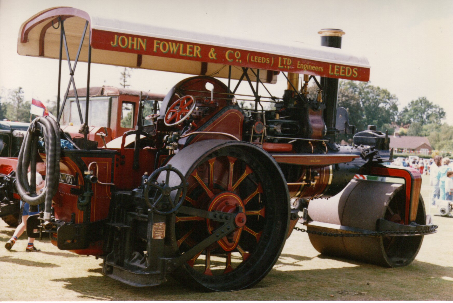 Steam Traction engine at a fair.